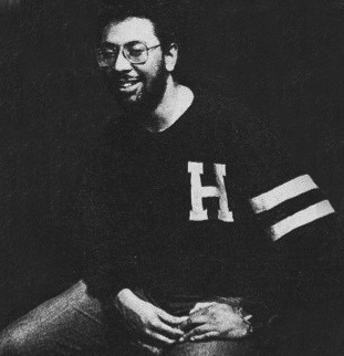 Herbie the Mastermind (real name Herbie Laidley) is a DJ who has worked under a variety of pseudonyms, including The Rapologists and Mastermind (confusingly, this is also the name of a DJ collective that Herbie was a member of, with Dave V.J and Max L.X as well as others). He is most famous for mixing the Street Sounds collection of early electro, as well as for a variety of remixes over the years.